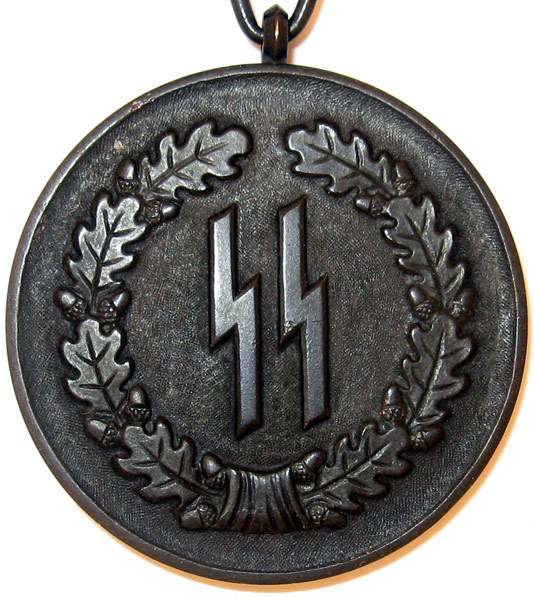 SS Long Service Award - 4 years